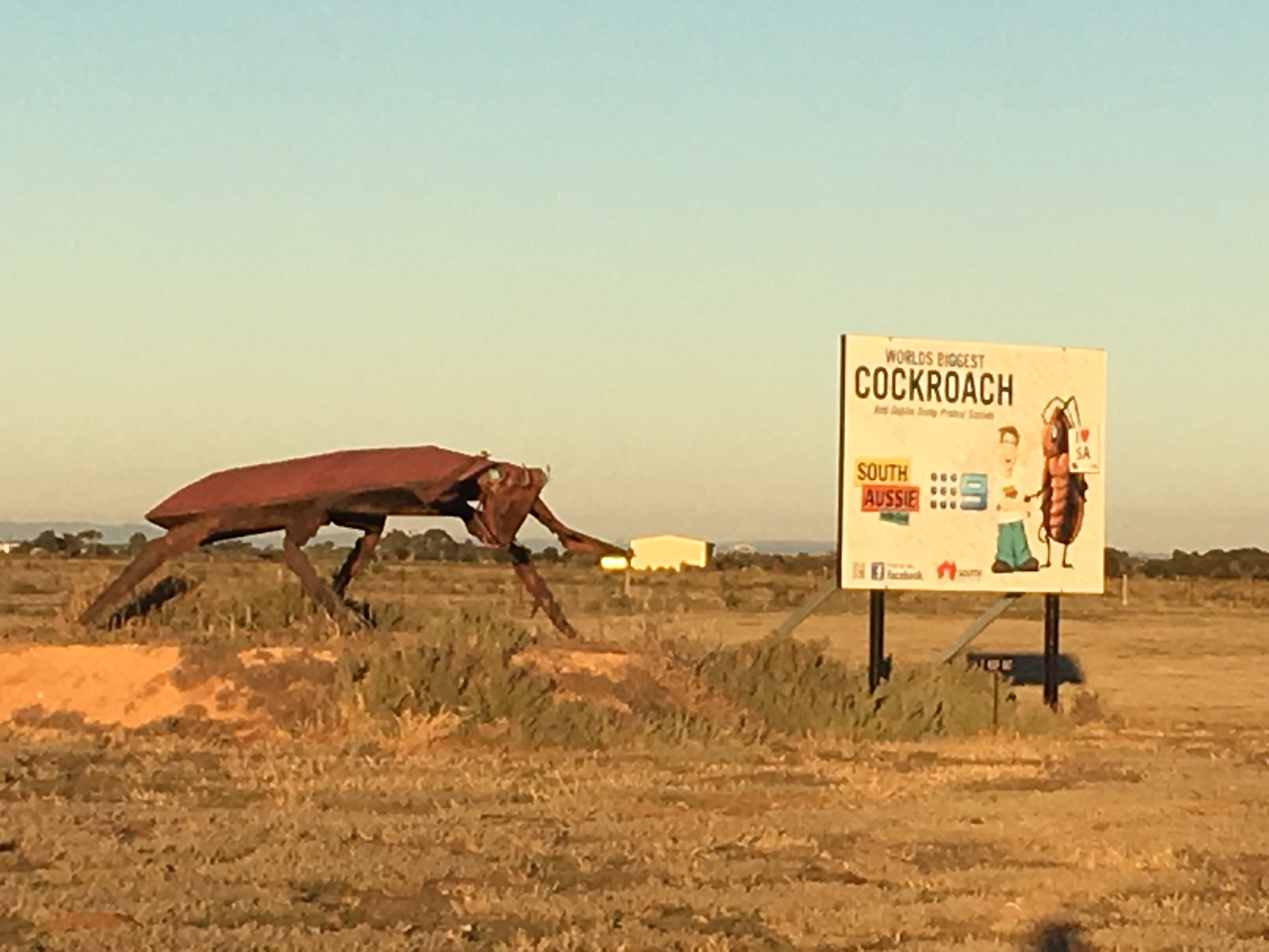 World's biggest cockroach (sculpture)